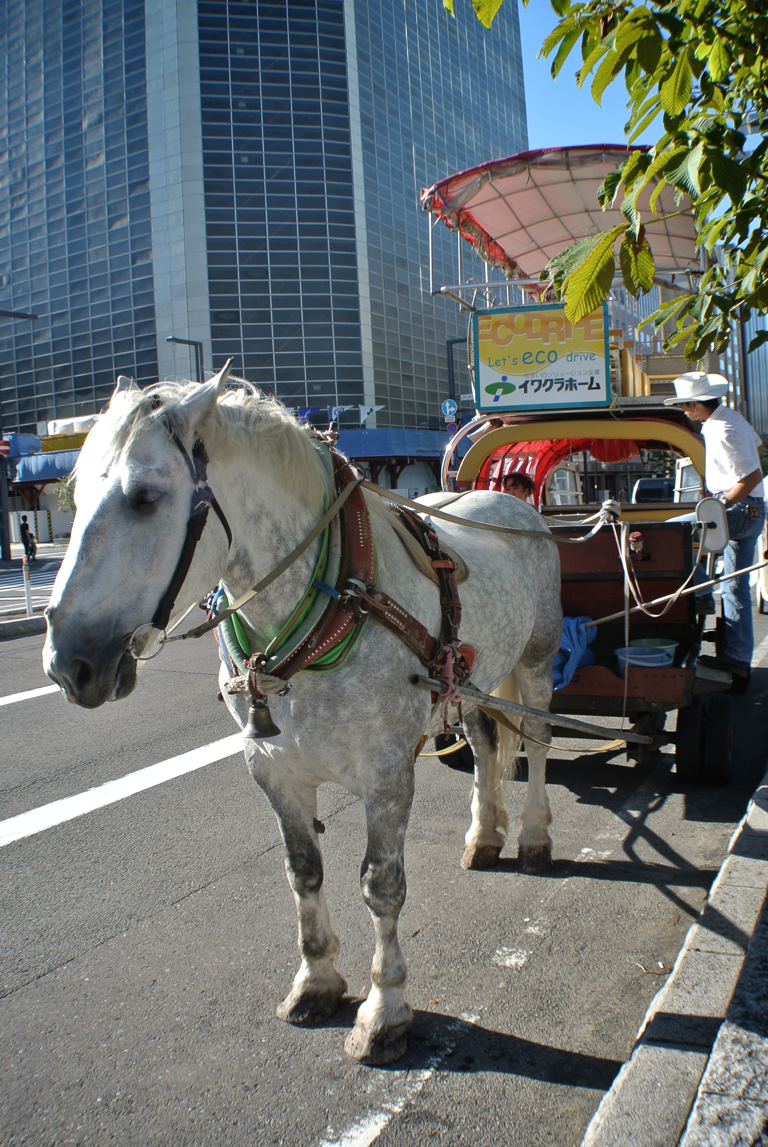 Sapporo sightseeing covered wagon (Carriage), Japan